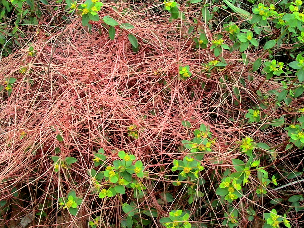 Cuscuta epithymum. In Torà (Segarra-Catalunya). To 575 m. altitude